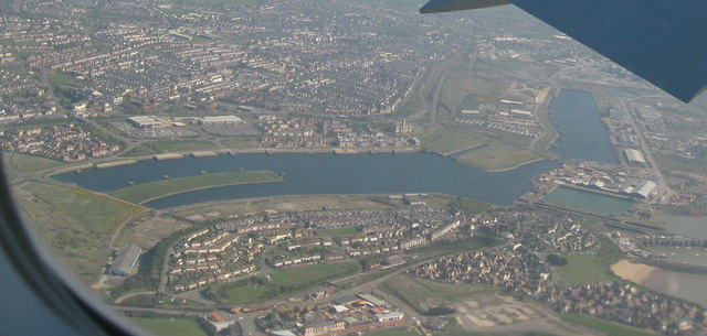 Barry Docks, Vale of Glamorgan